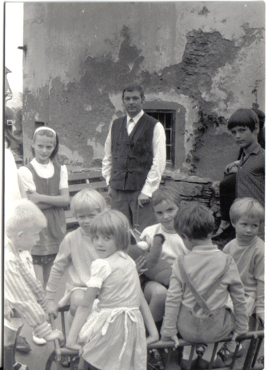 Composer Gerhard Lampersberg talks to the group of children about composing in Maria Saal(Austria) (Privatephoto from Renate Spitzner)